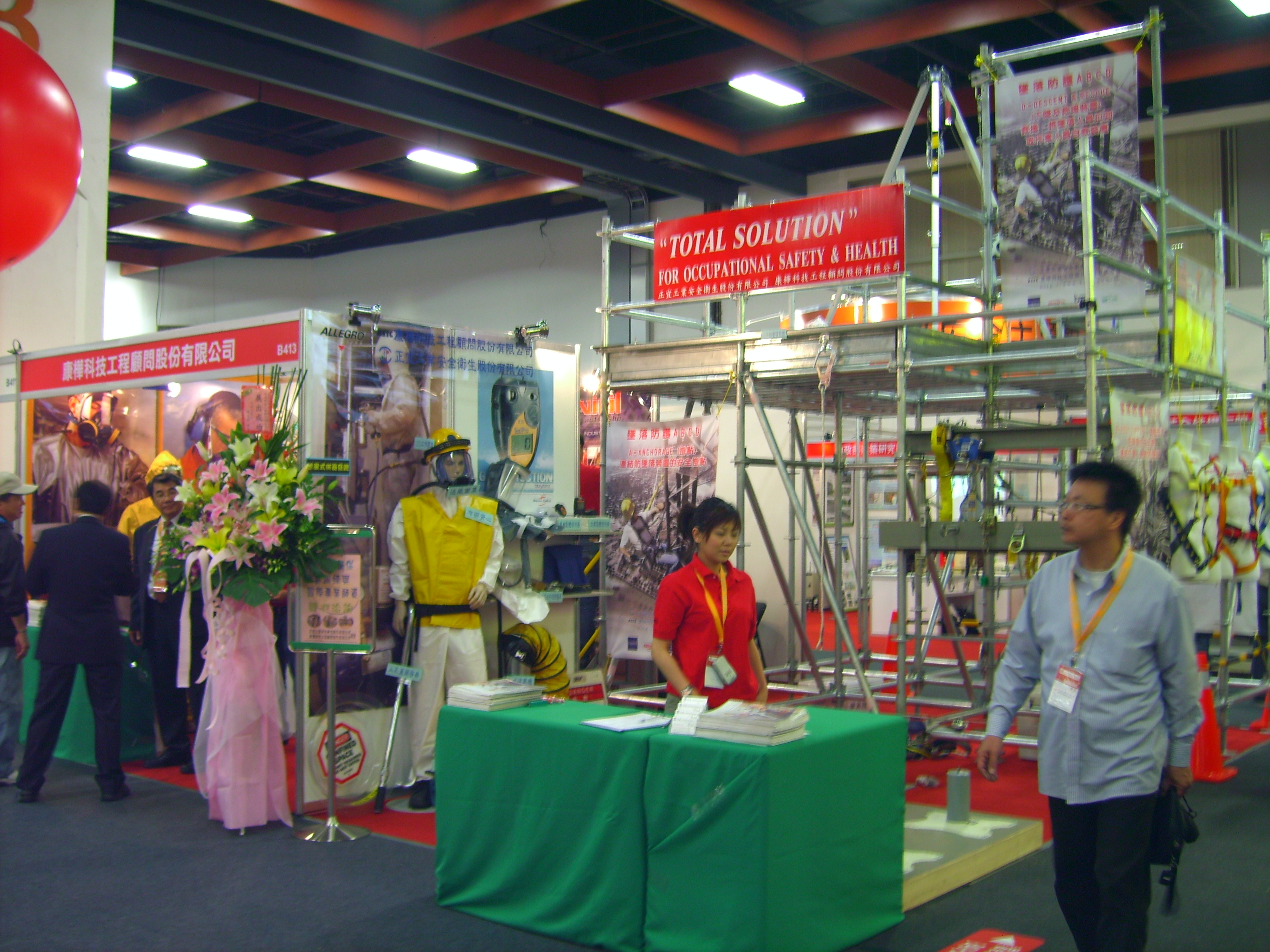 SecuTech Expo 2007: Fire and Safety Taipei.